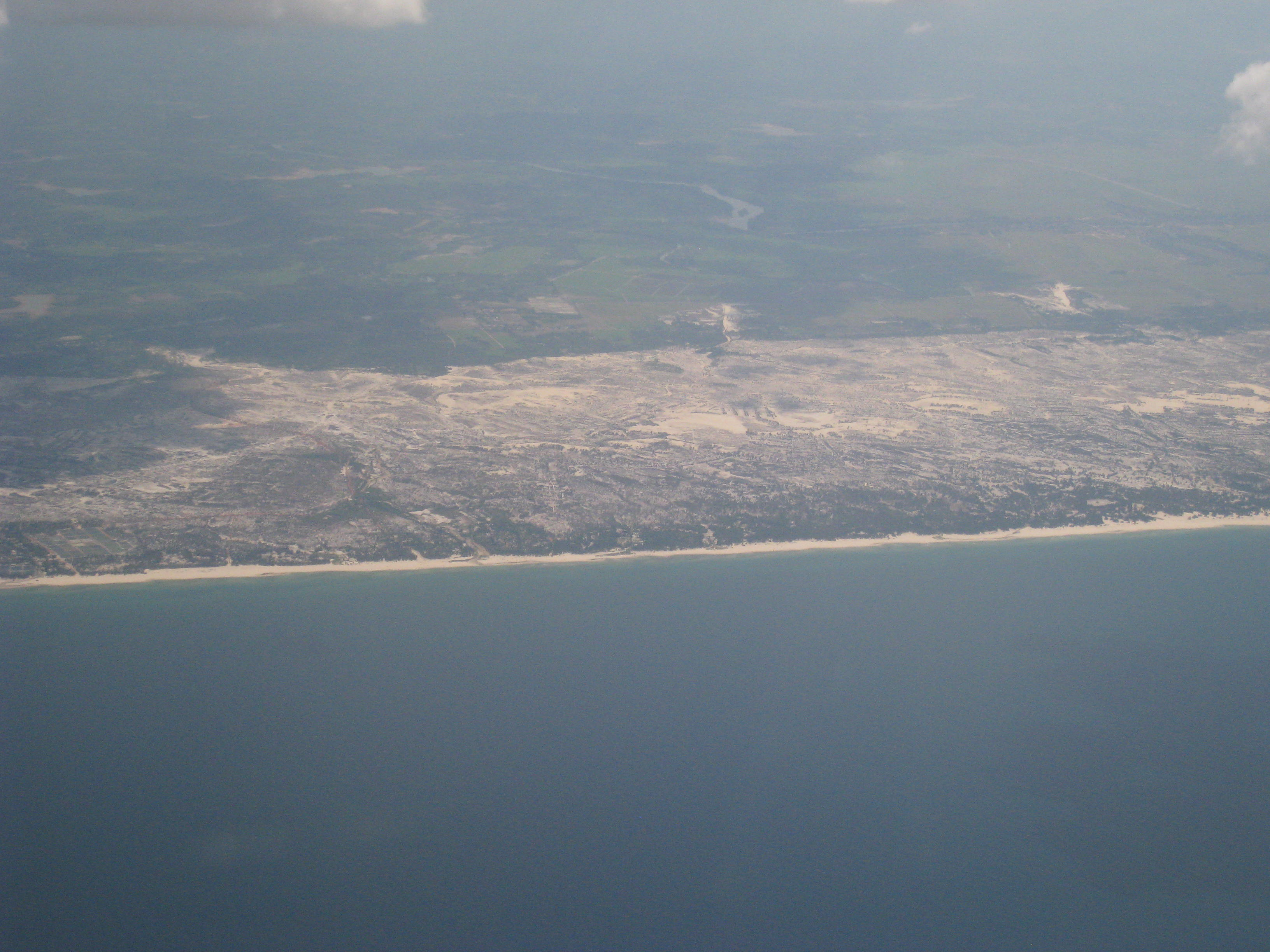 Seaside in Le Thuy District, Quang Binh, Vietnam